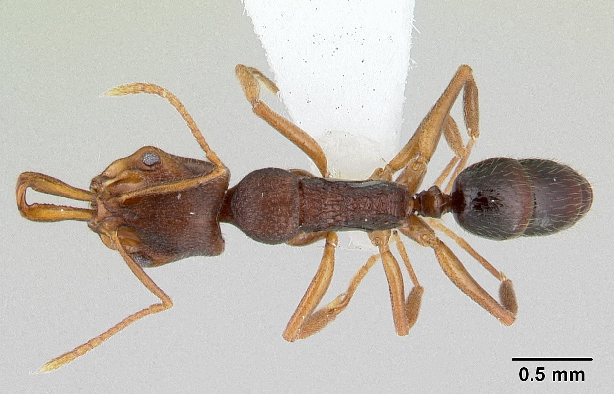 Dorsal view of ant Anochetus graeffei specimen casent0178464.